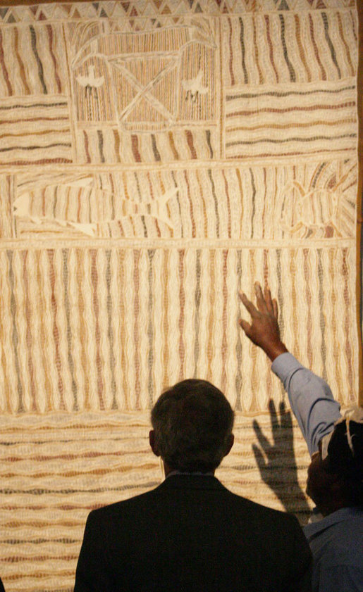 President George W. Bush examines the details of a Yirrkala Bark Painting during a tour on September 6, 2007, of the Australian National Maritime Museum in Sydney. The President was scheduled to attend the 2007 APEC summit later that week.